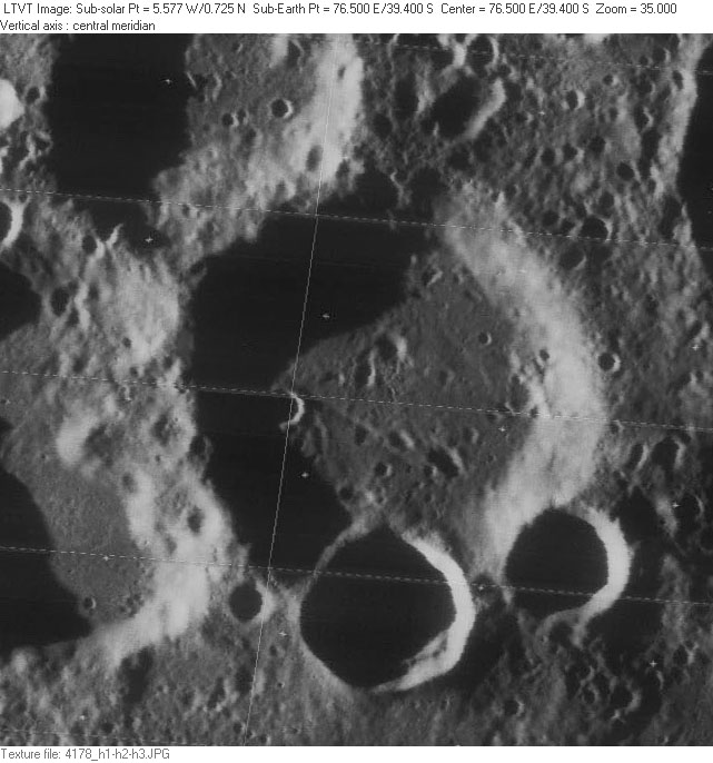 Crater Marinus. Detail from Lunar Orbiter IV-178H. High resolution scans from the USGS Lunar Orbiter Digitization Project remapped to a north-up aerial view by LTVT.